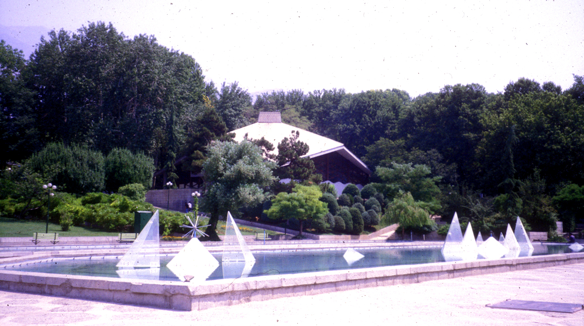 Photo taken with a Fuji 200 Slide film.